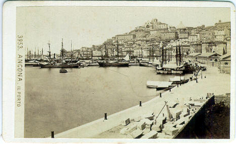 Giacomo Brogi (1822-1881) - "Ancona - Harbour". Catalogue # 3952.